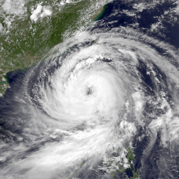 Typhoon Hal on June 22, 1985. At the time Hal had winds of 87.8 knts (101 mph, 162.7 kph), 1-min sustained and a pressure of 960 mbar. Hal was about 35 miles away from land and 47 hours away from landfall. This image was taken by the NOAA-9 Satellite.